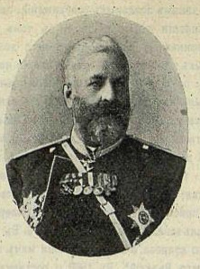 Lieutenant-General of the Russian Empire Viktor Prokope.